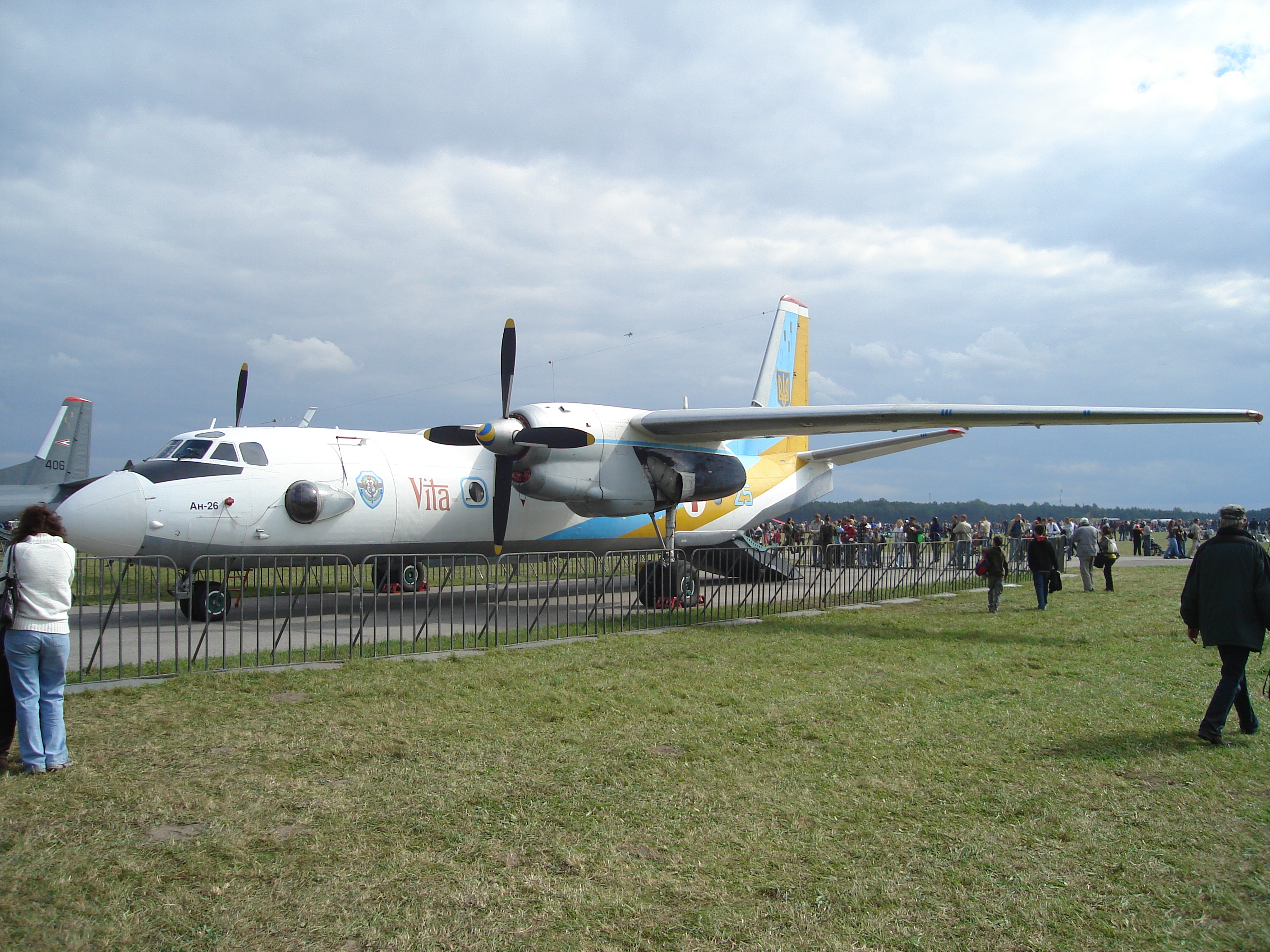 Picture of Antonov An-26, Radom Air Show 2007